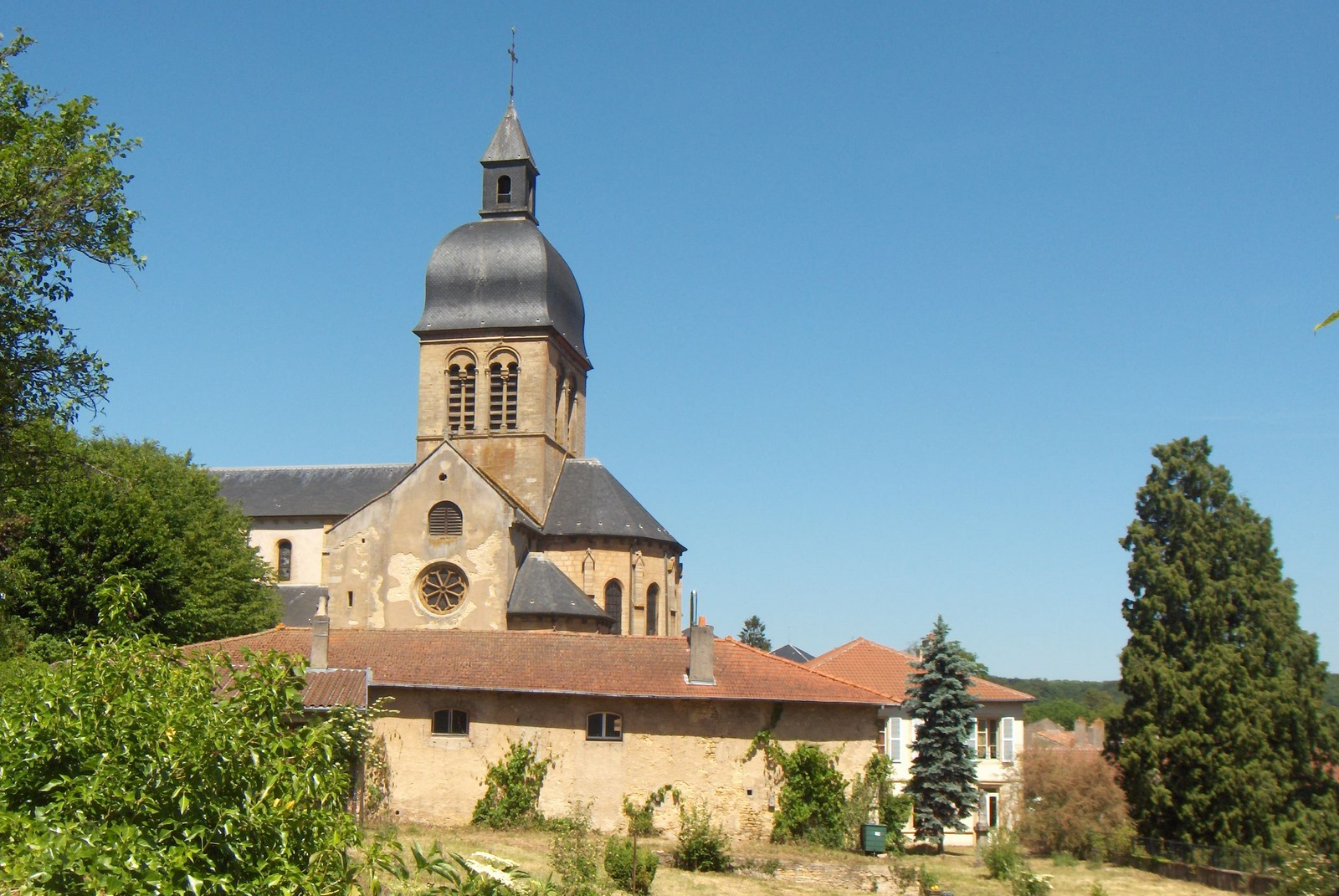 Former abbey church of Gorze (dept of Moselle, France), 12th century